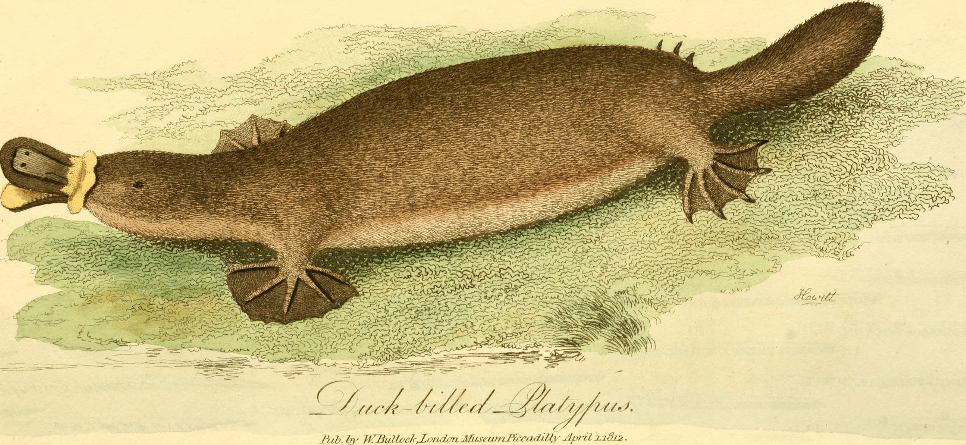 Title: A companion to Mr. Bullock's London Museum and Pantherion : containing a brief description of upwards of fifteen thousand natural and foreign curiosities, antiquities, and productions of the fine arts, collected during seventeen years of arduous research, and at an expense of thirty thousand pounds : and now open for public inspection in the Egyptian Temple, just erected for its reception, in Piccadilly, London, opposite the end of Bond-Street Year: 1812 (1810s) Authors: Bullock, W. (William), fl. 1808-1828; Howitt, Samuel, 1765?-1822, ill; Wells, John West, 1907- , former owner. DSI Subjects: London Museum (1812-1819); Zoology Publisher: (London) : Printed for the proprietor Text Appearing Before Image: ' Text Appearing After Image: '